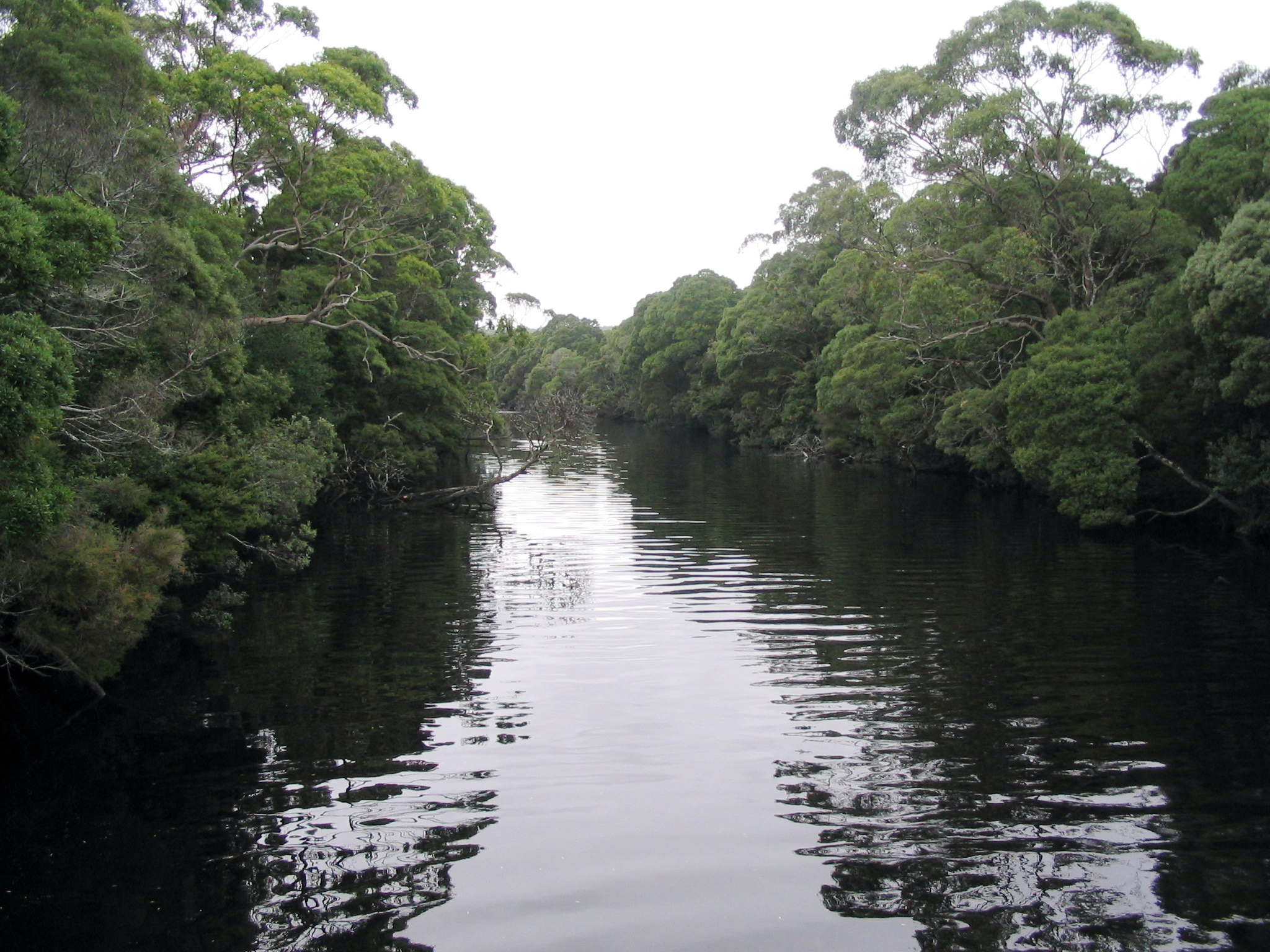 Henty River Western Tasmania, Australia. Taken from a "bike-eating bridge" during the 2005 Great Tasmanian Bike Ride.